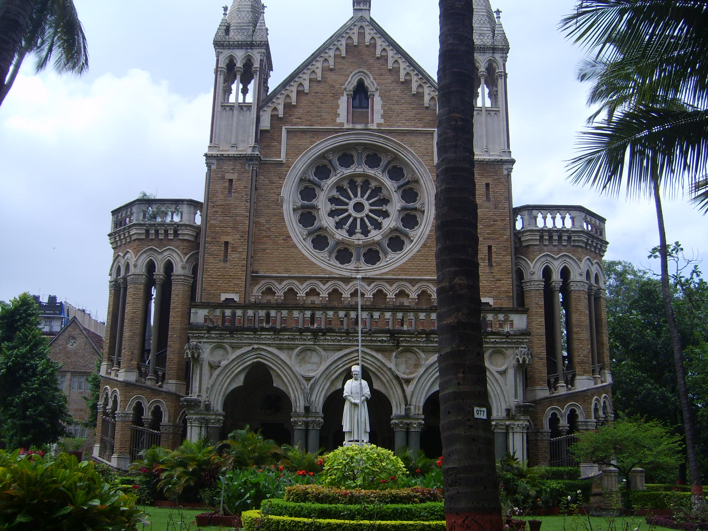 View of the main building and of a part of the gardens of the Mumbai University.